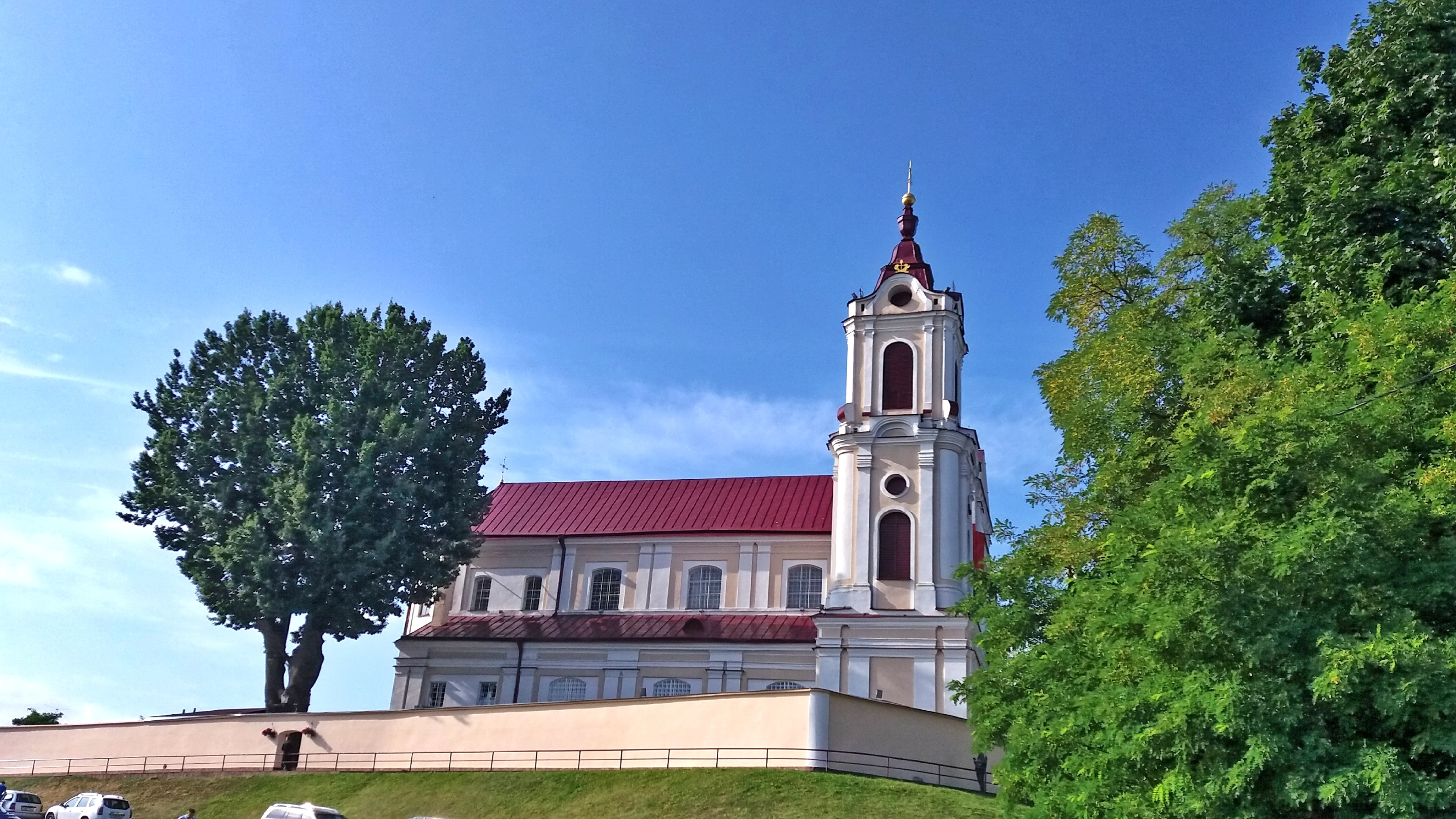 Franciscan church of St. Mary of the Angels in Hrodna